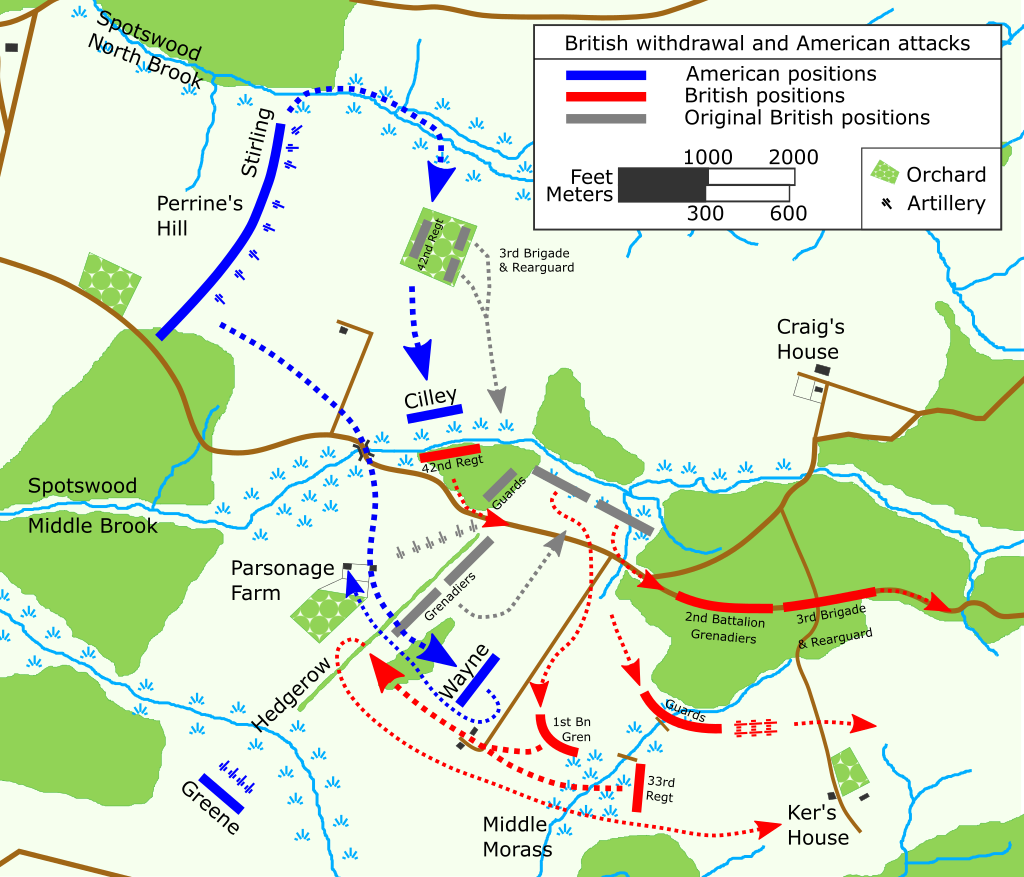 British withdrawal and American attacks during the Battle of Monmouth